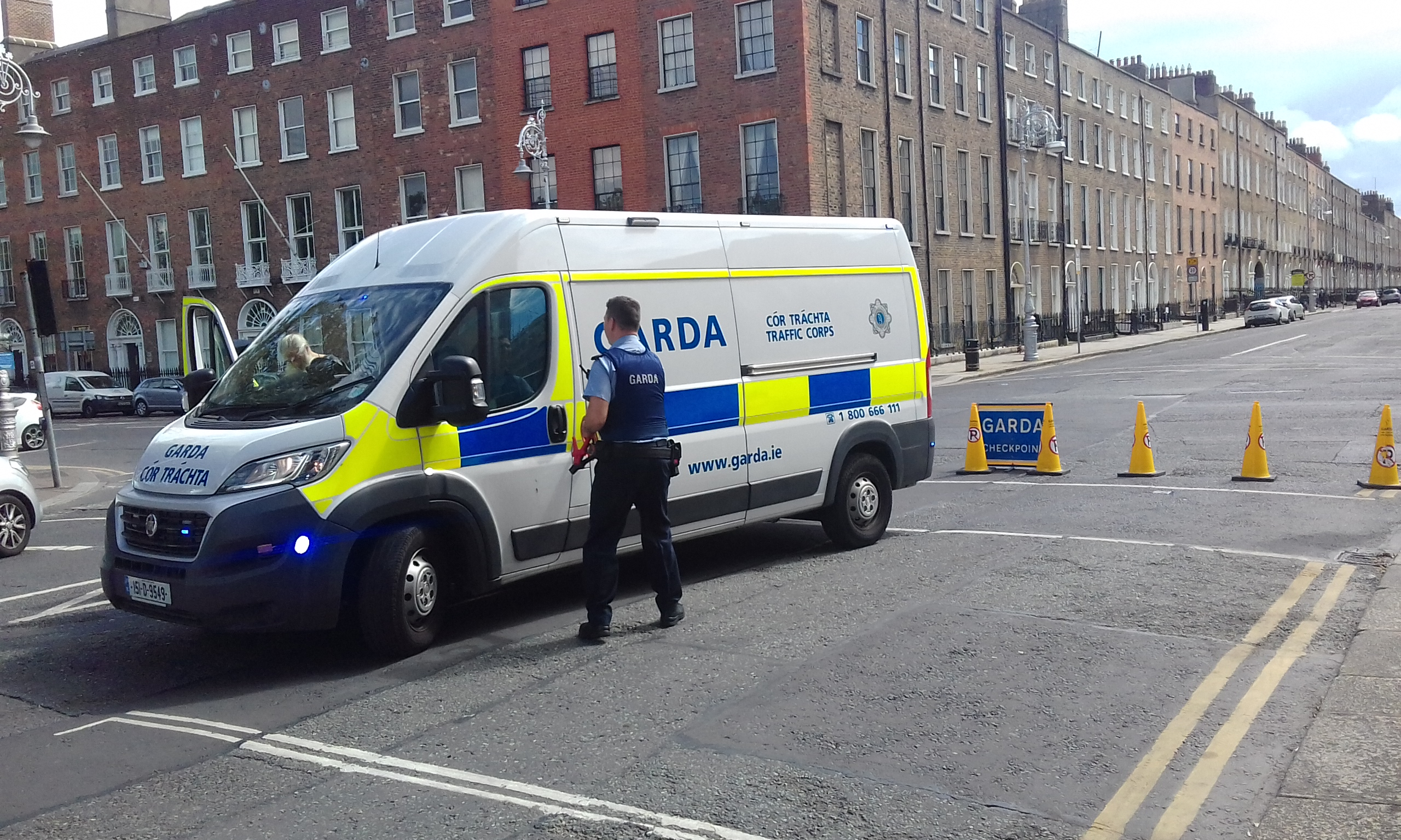 Pearse Street Divisional Traffic Corps 2015 Fiat Ducato van deploying cones in the vicinity of Merrion Square, Dublin to enforce a road closure during a cultural event.